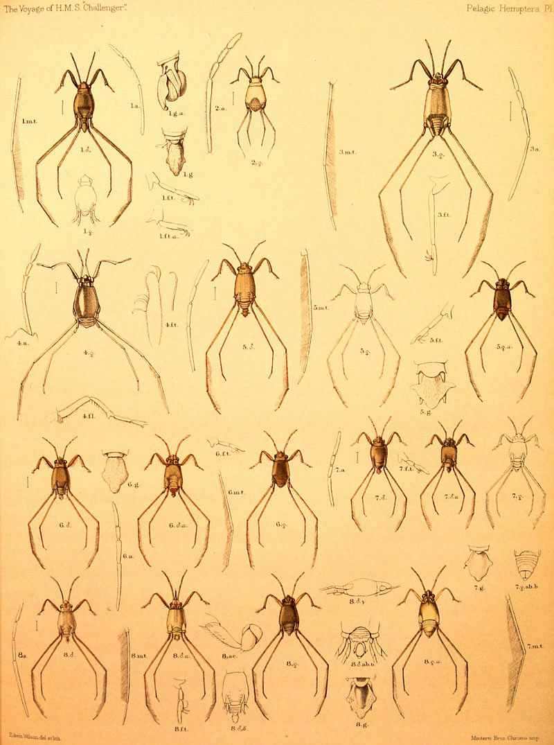 Plate from the Challenger Report on the Pelagic Hemiptera. 1. Halobates micans (as Halobates wullerstorffi) 2.Halobates micans 3.Halobates princeps 4.Halobates micans (as Halobates streatfieldanus) 5.Halobates sobrinus 6.Halobates germanus 7.Halobates sericeus 8.Halobates hayanus